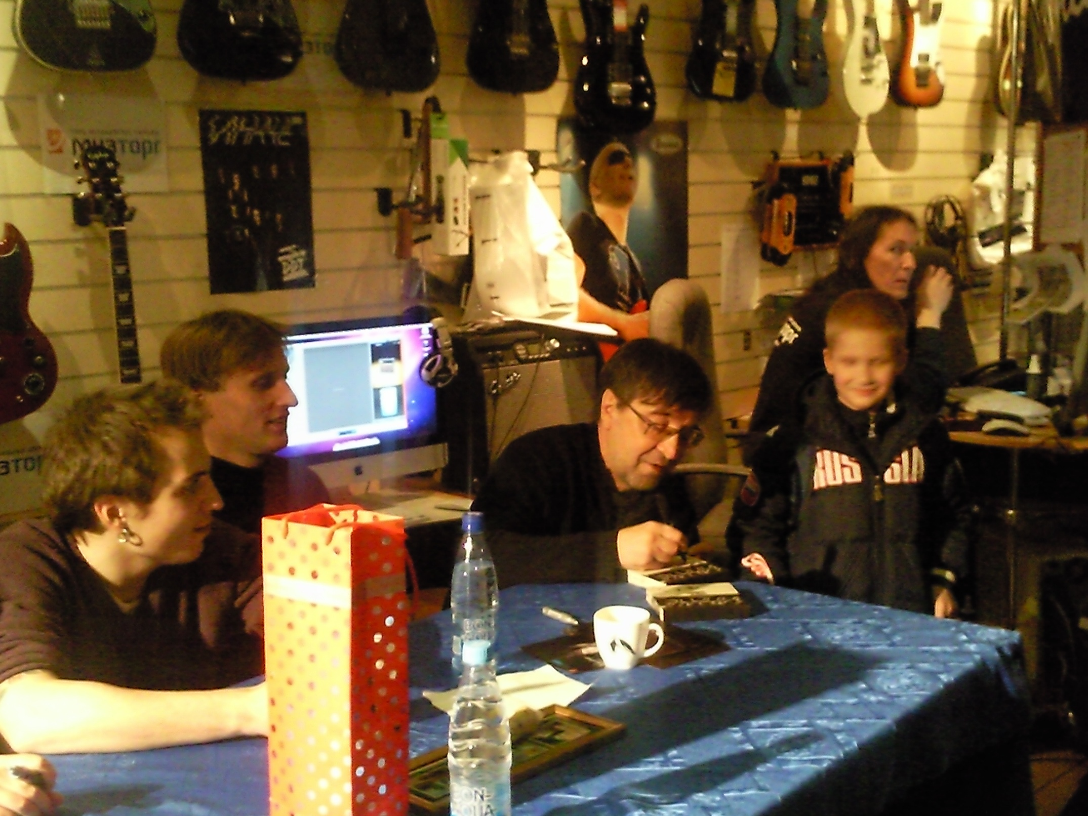 Russian band DDT during the autograph-session in Moscow, 2011